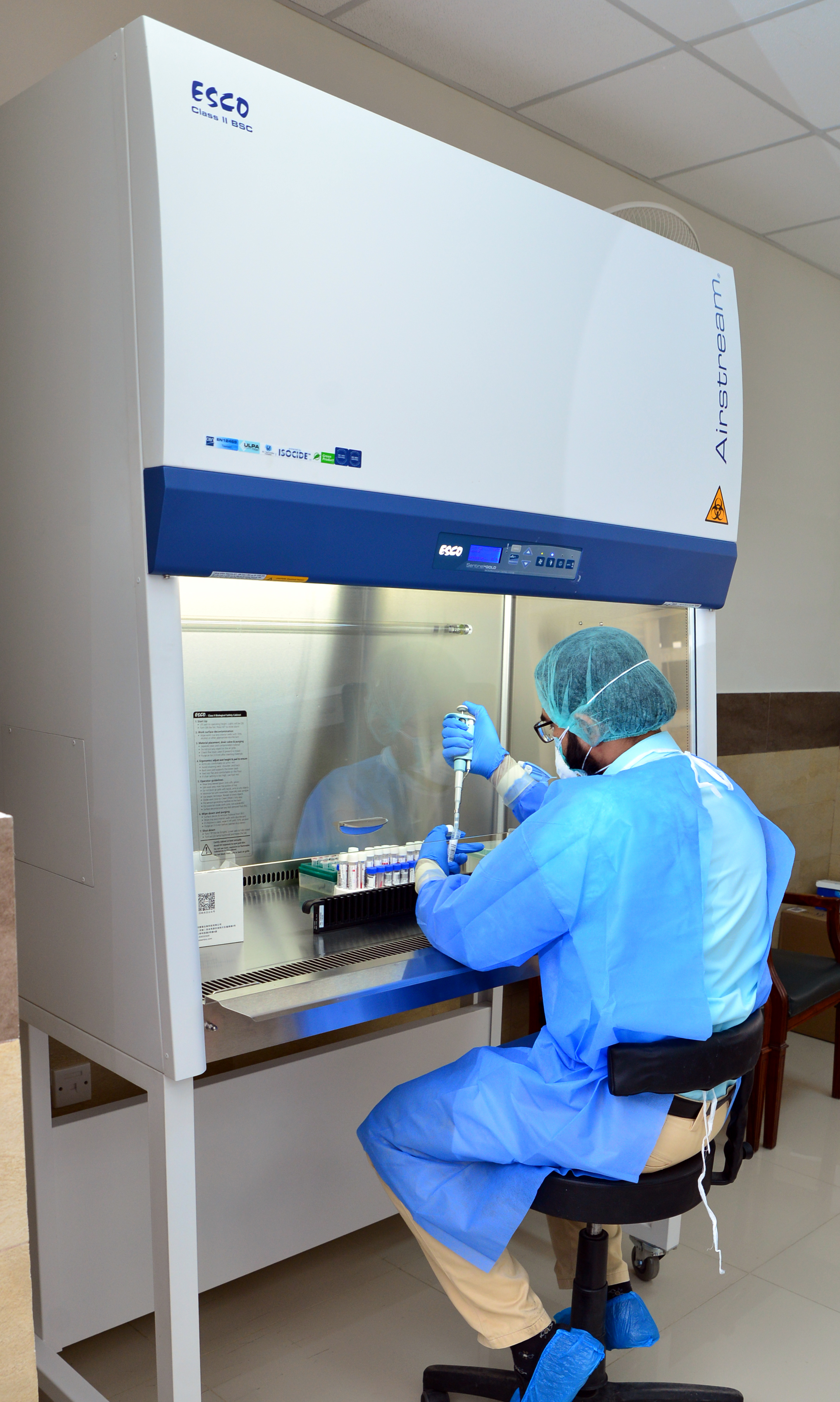 Assistance to Pakistan for diagnostics of COVID-19 COVID-19 Equipment donated by the IAEA at the General Hospital, of the Pakistan Atomic Energy Commission (PAEC), Islamabad, Pakistan. 14 July 2020 The International Atomic Energy Agency (IAEA) is dispatching equipment to countries around the world to enable them to use a nuclear-derived technique to rapidly detect the coronavirus that causes COVID-19. This emergency assistance is part of the IAEA's response to requests for support from Member States in controlling an increasing number of infections worldwide. Photo Credit: Abdul Majeed, General Hospital and Imtiaz Ahmad, National Liaison Officer